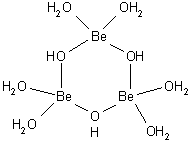 Beryllium trimeric hydrolysis product